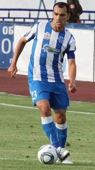 Mihăiţă Pleşan with FC Volga Nizhny Novgorod.